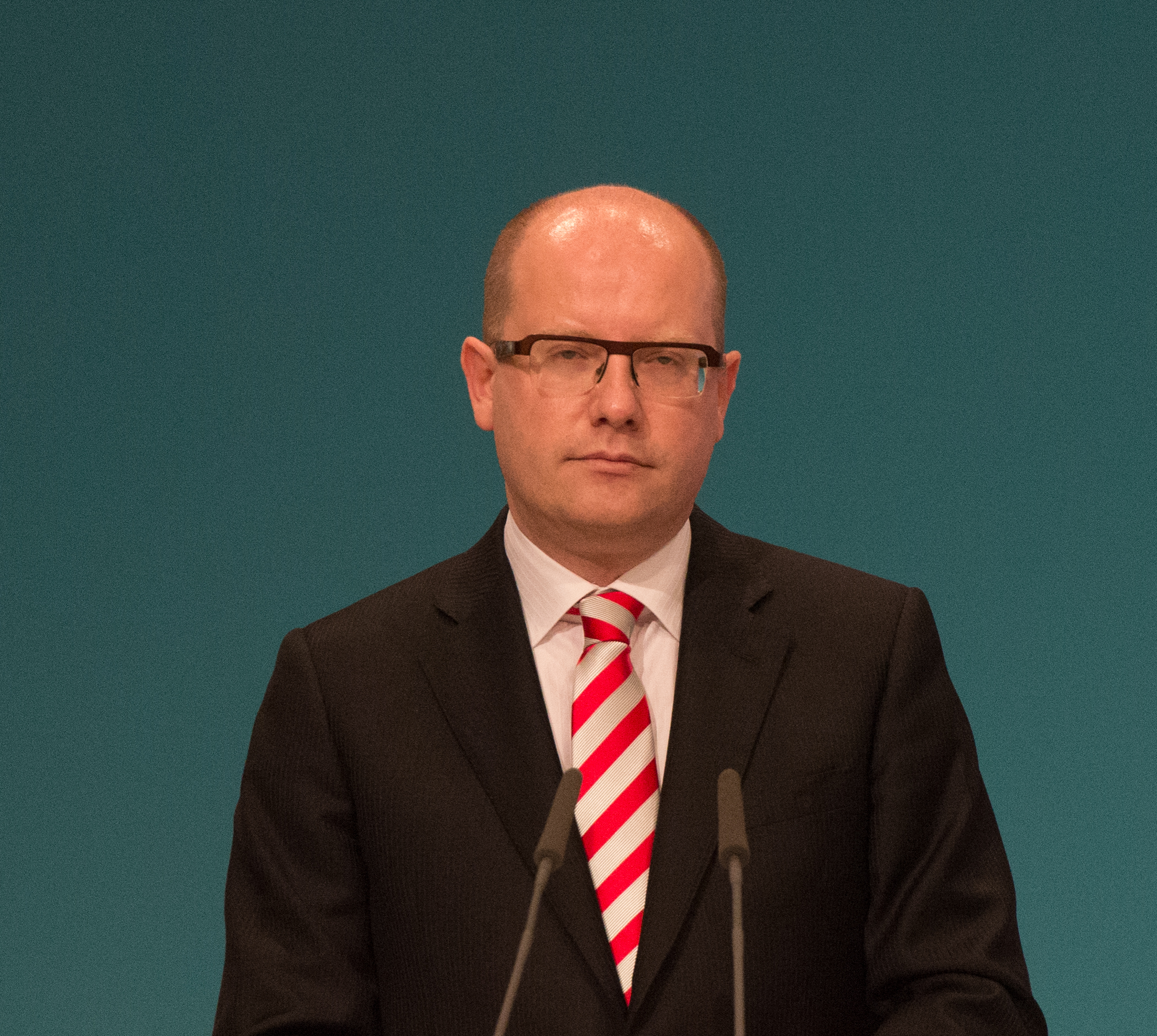 MP Bohuslav Sobotka in Berlin